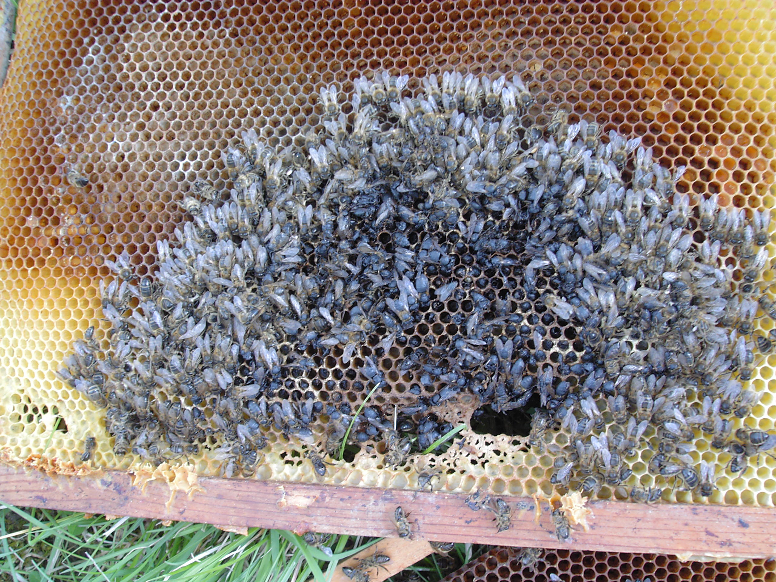 A hive frame full of dead bees because of starvation due to a particularly long and cold winter time (2005-2006).